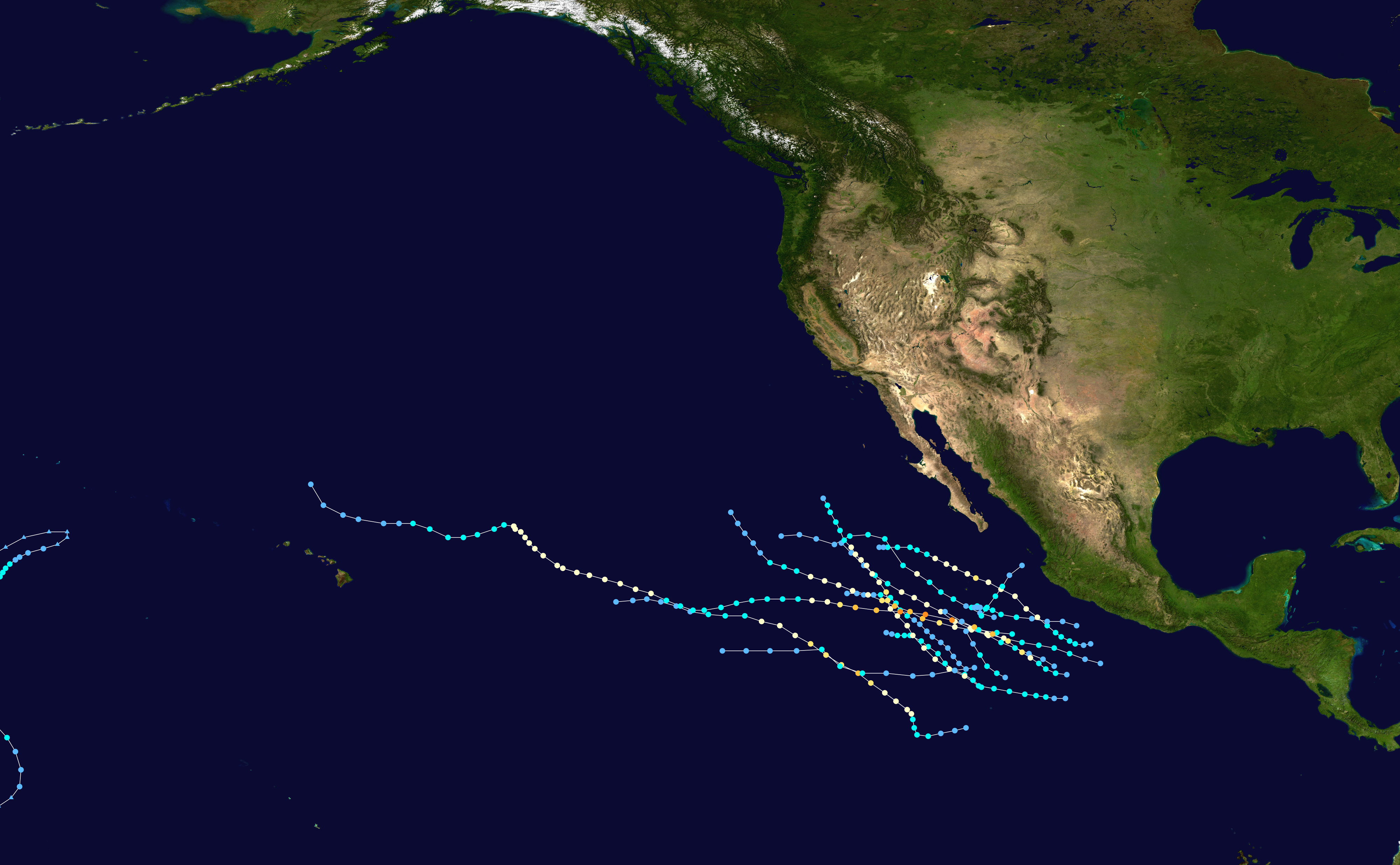 This map shows the tracks of all tropical cyclones in the 1980 Pacific hurricane season. The points show the location of each storm at 6-hour intervals. The colour represents the storm's maximum sustained wind speeds as classified in the Saffir-Simpson Hurricane Scale (see below), and the shape of the data points represent the type of the storm. Saffir–Simpson scale Tropical depression≤38 mph≤62 km/h Category 3111–129 mph178–208 km/h Tropical storm39–73 mph63–118 km/h Category 4130–156 mph209–251 km/h Category 174–95 mph119–153 km/h Category 5≥157 mph≥252 km/h Category 296–110 mph154–177 km/h Unknown Storm type Tropical cyclone Subtropical cyclone Extratropical cyclone / Remnant low / Tropical disturbance / Monsoon depression